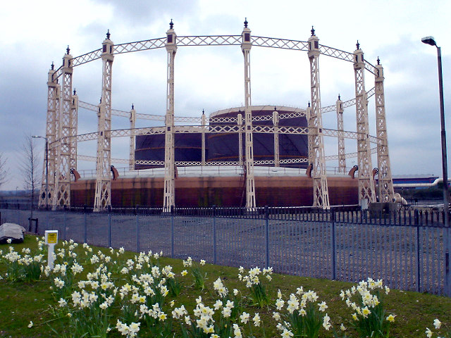 Gas holders at Beckton. Was part of the giant Beckton gasworks - now right beside a bleak modern shopping centre.